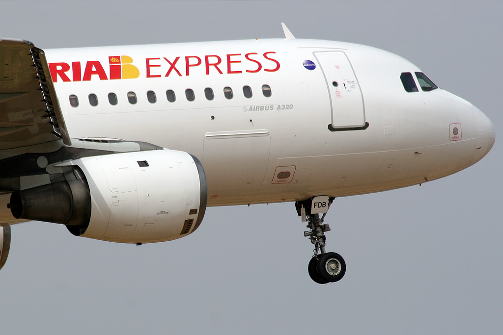 Iberia Express starting operations. First day at Sevilla